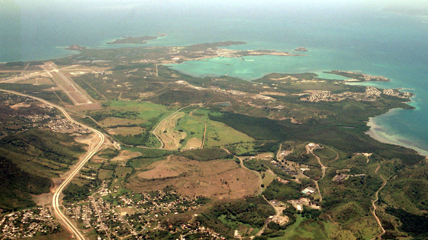 Aerial view of the U.S. Naval Station Roosevelt Roads, Puerto Rico, on 19 May 1997.